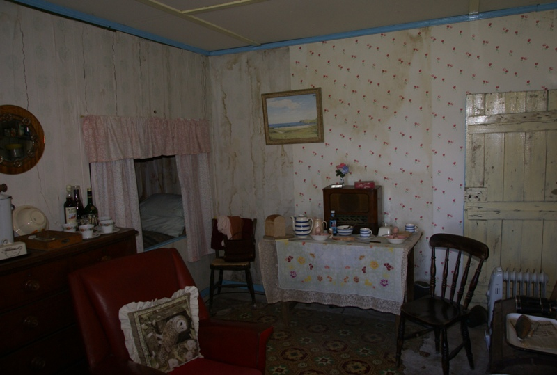 Arnol Blackhouse, Arnol, Lewis, Outer Hebrides, Scotland - white house no. 39, interior